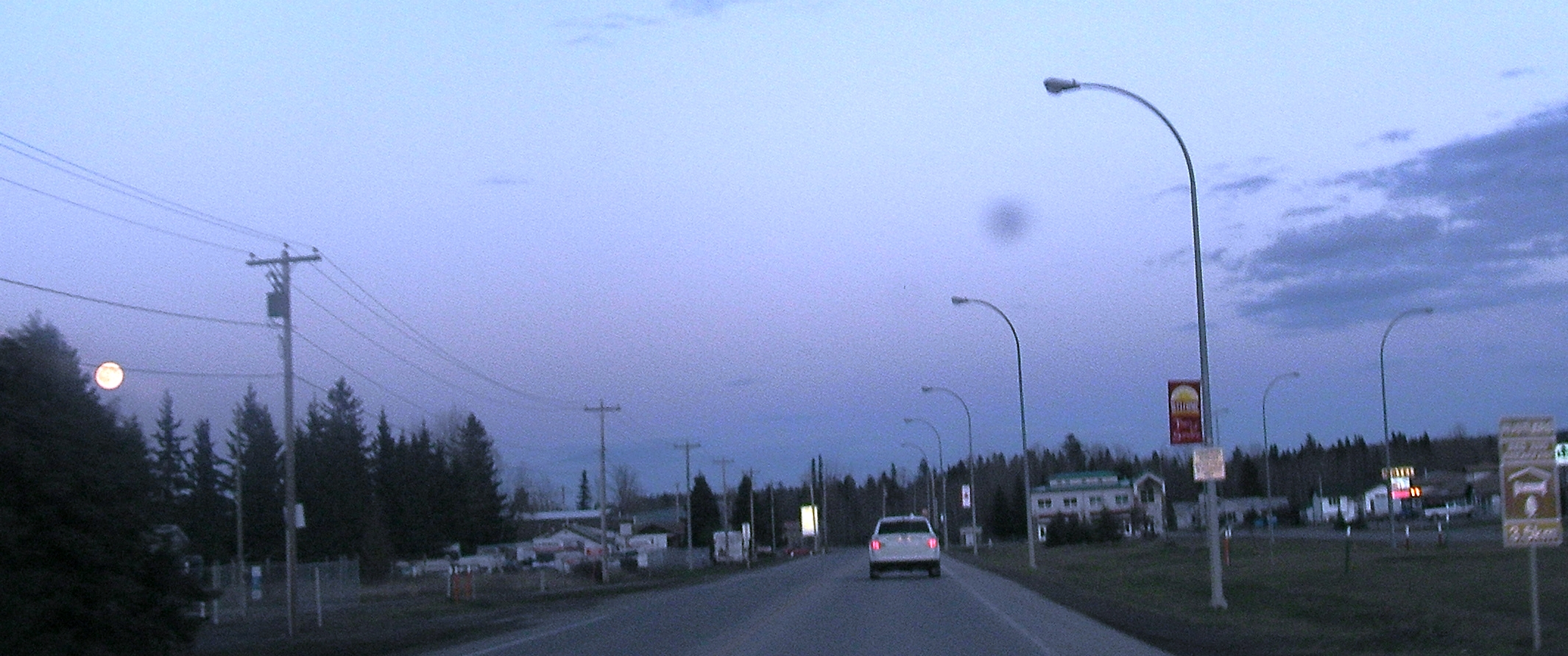 Mainstreet Sundre, Alberta, Canada